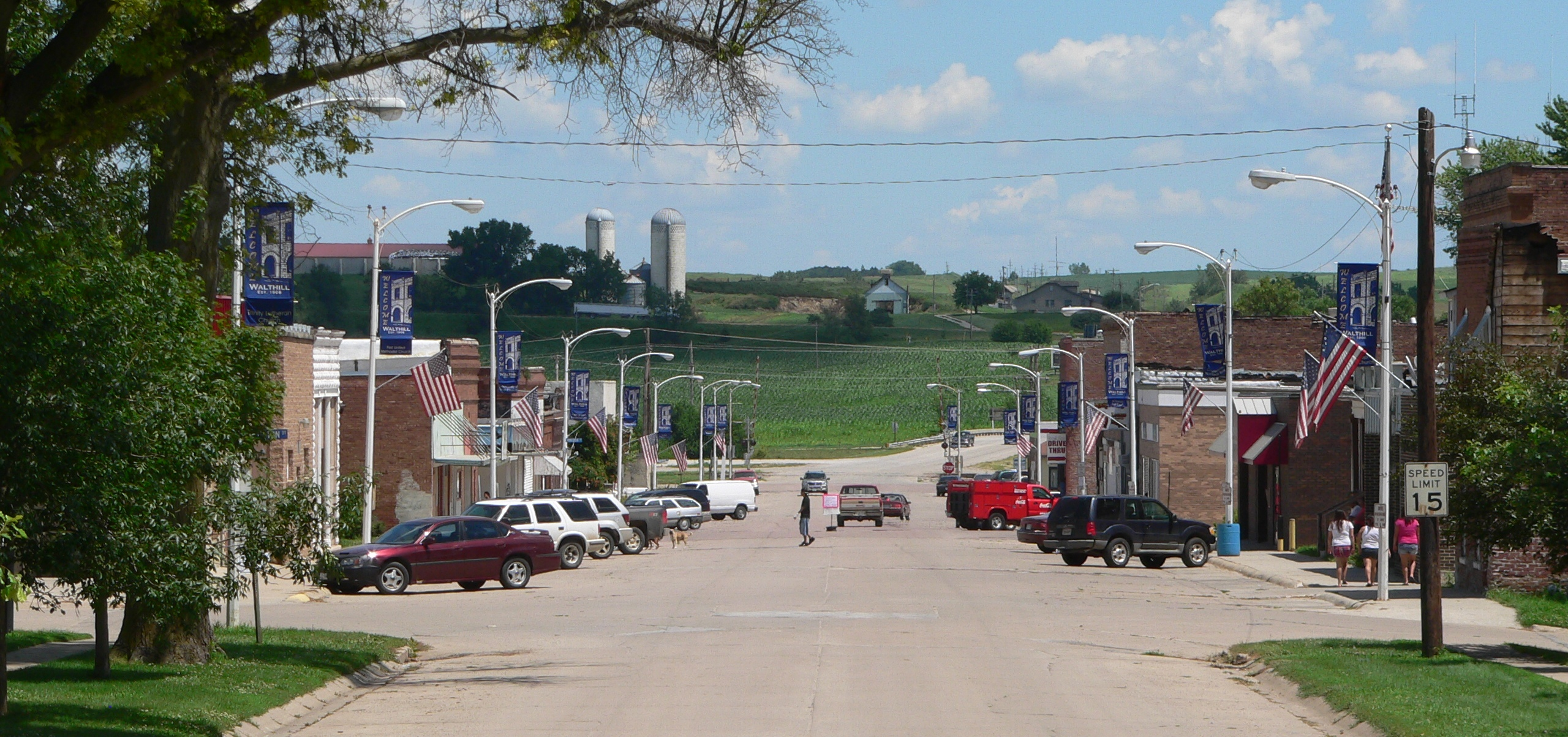 Downtown Walthill, Nebraska: Main Street, looking eastward from about Broughton Street.